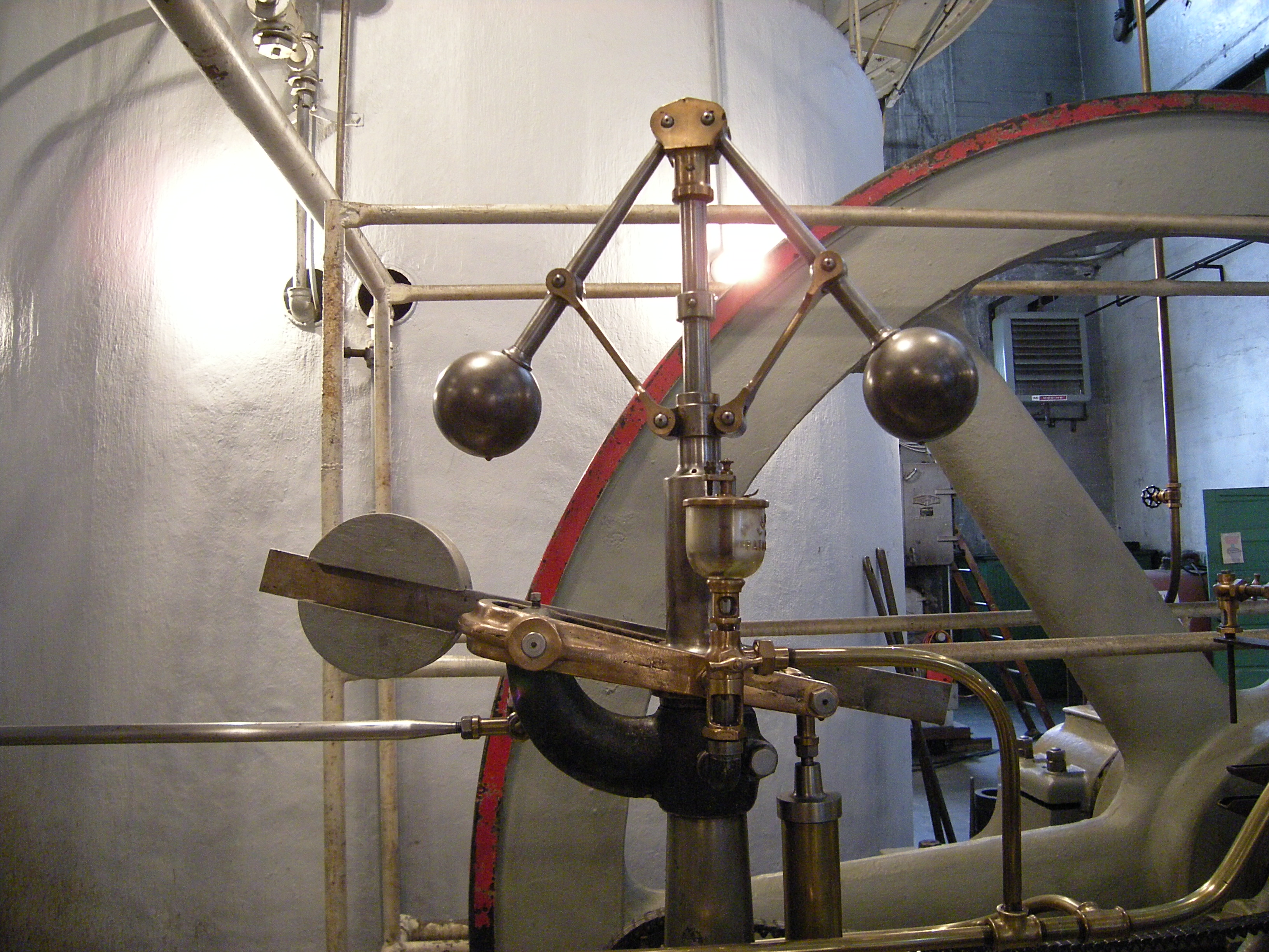 Centrifugal governor, Georgetown PowerPlant Museum, Seattle, Washington, USA. If someone knows more about this topic, please feel free to add to this description.